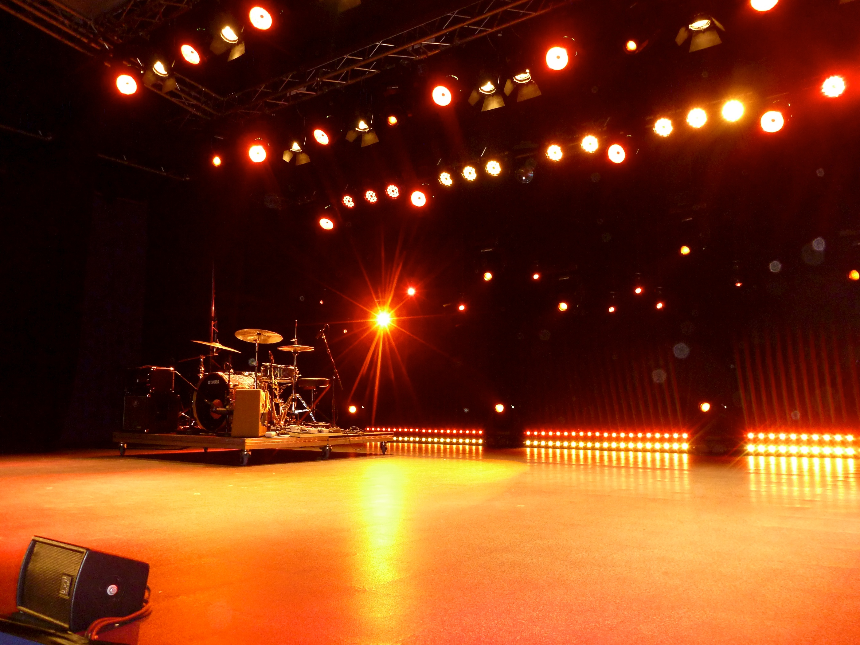 Stage of Arosa Humor-Festival, Arosa/Switzerland